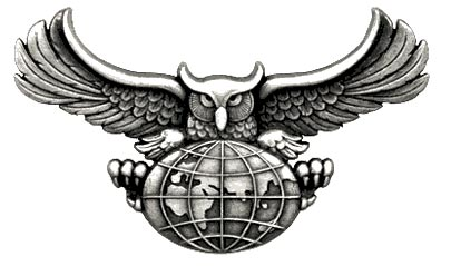 Badge Rating certificate of 2nd Hussars (France).